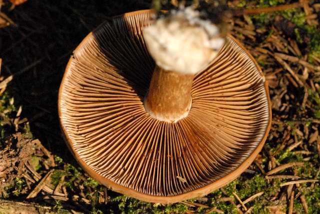 Cortinarius infractus from Commanster, Belgian High Ardennes .